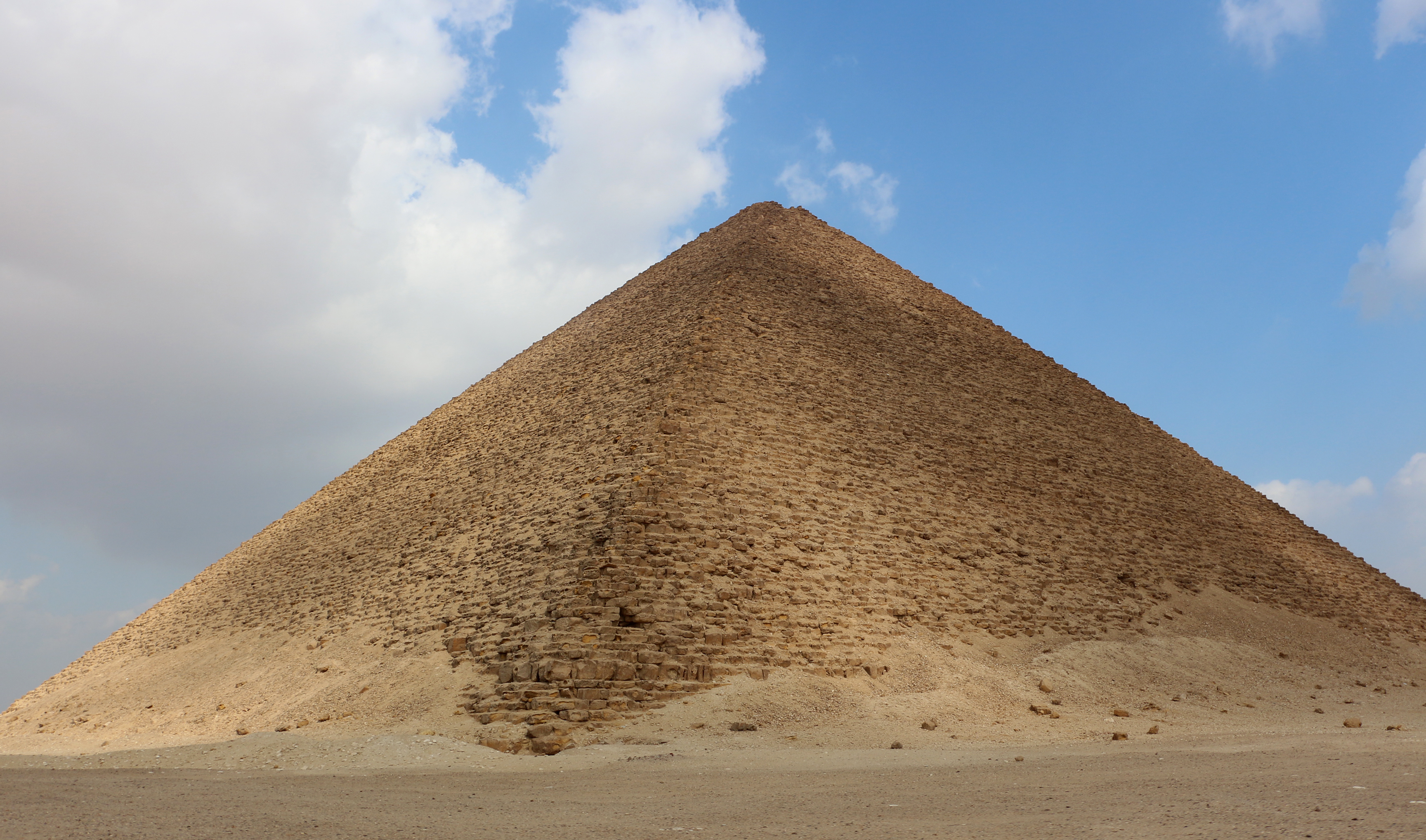 Red Pyramid